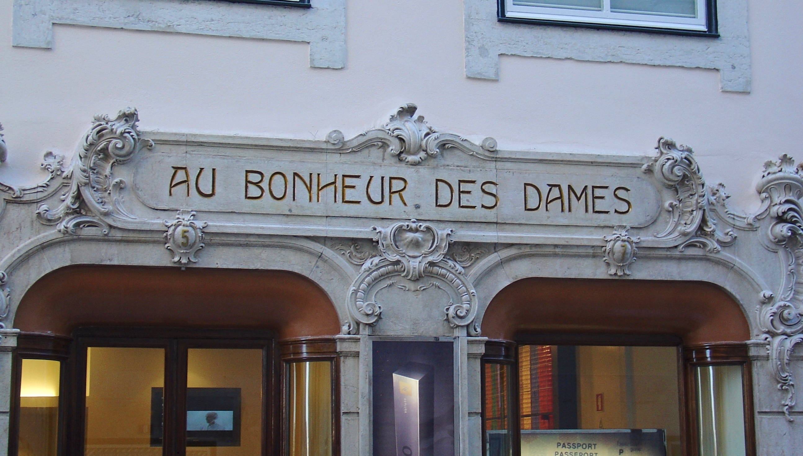 A Display window from the french novel "Au bonheur des Dames" by Émile Zola, Rua do Carmo, Lisbon